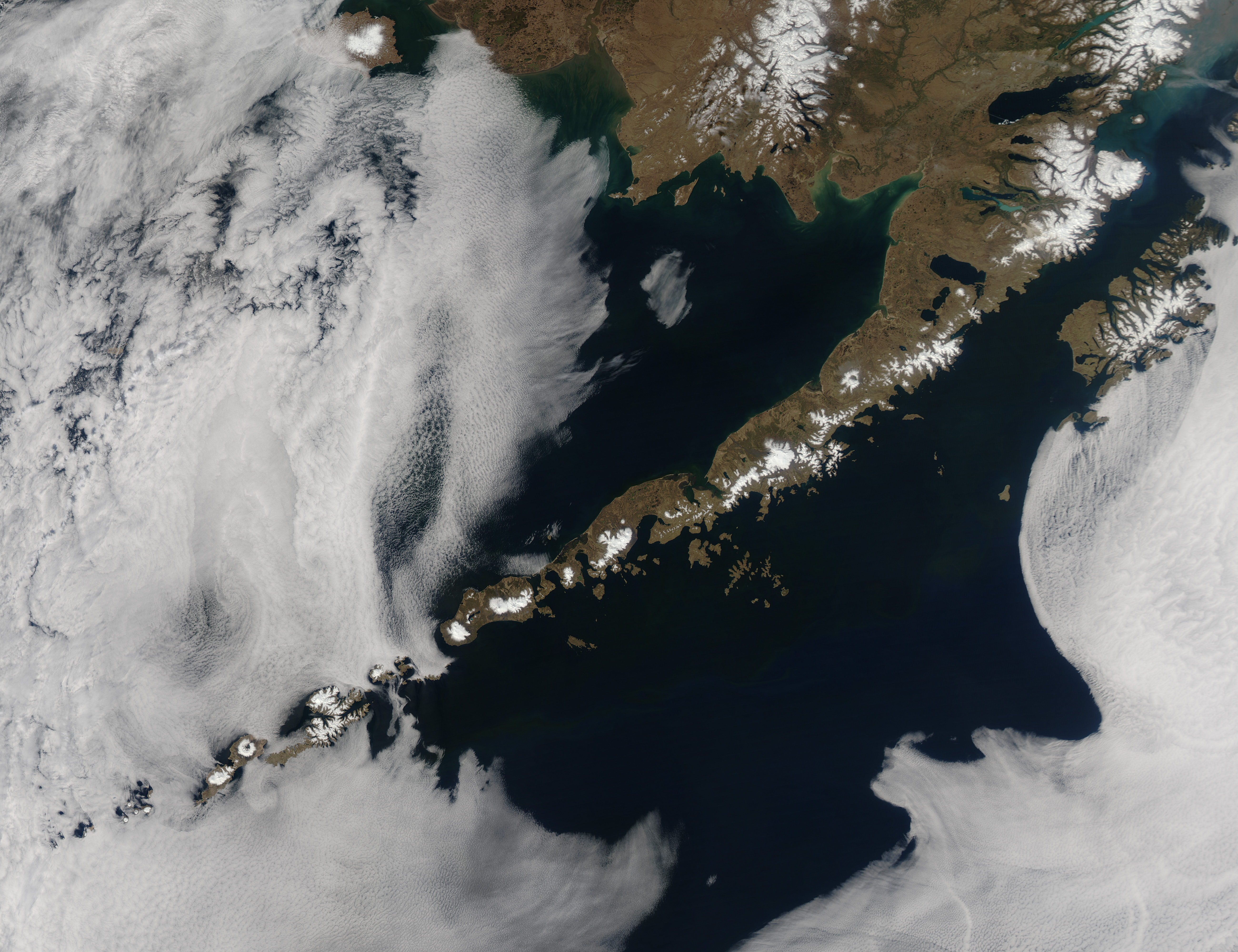 Unusually clear skies allowed the Moderate Resolution Imaging Spectroradiometer (MODIS) on NASA’s Aqua satellite to acquire this image of Aleutian Islands on May 15, 2014. Including the Alaskan peninsula, 52 volcanoes are visible in this scene.